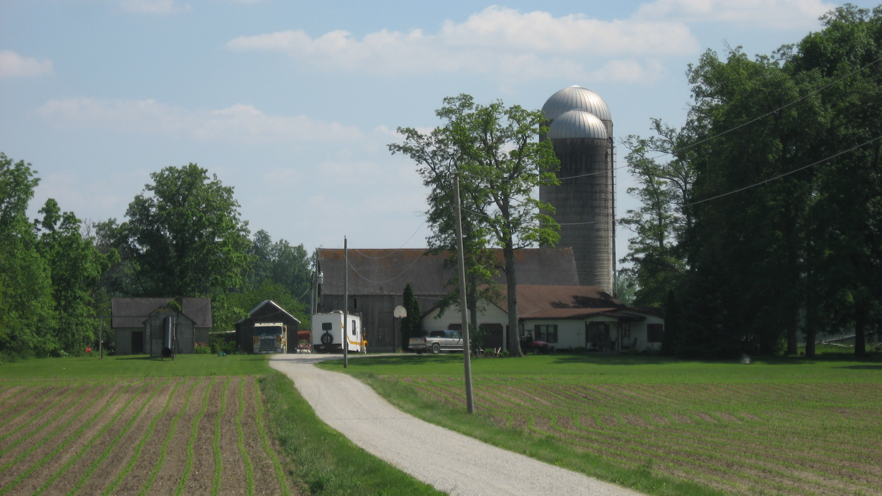 Buildings at the Wallischeck Homestead, located along Zehringer Road north of Fort Recovery in Recovery Township, Mercer County, Ohio, United States. The farm complex is listed on the National Register of Historic Places.